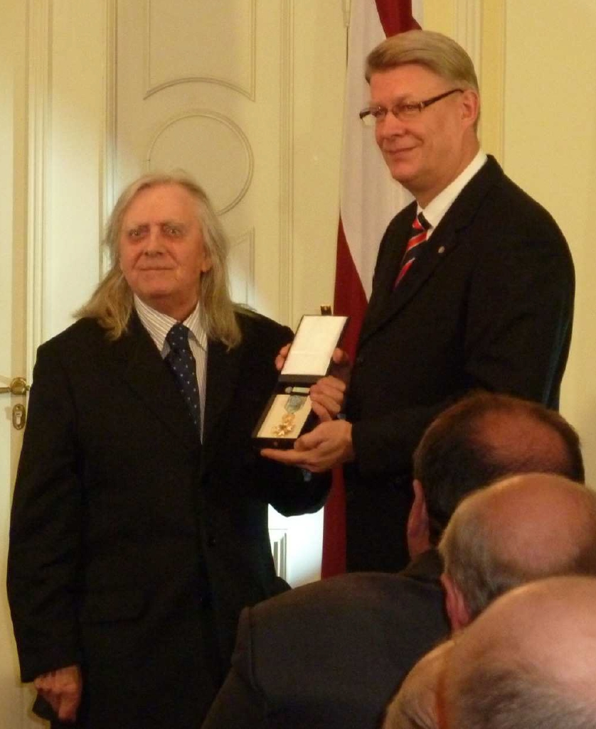 Edgars Vinters receives the highest stately award, the Order of the Three Stars from president Valdis Zatlers. Photo Hans Joachim Gerber, November 16, 2009.